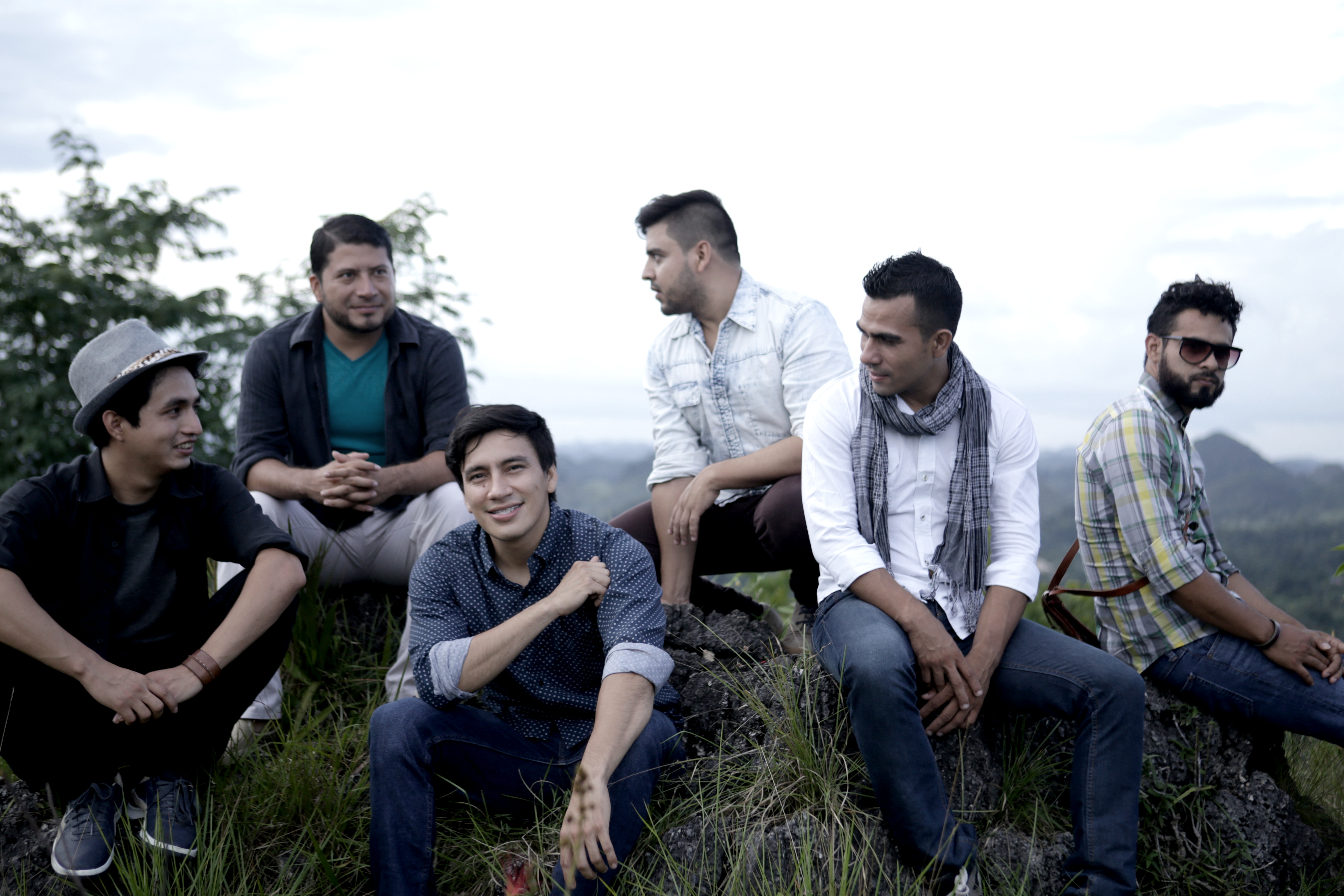 Kayland in 2016.